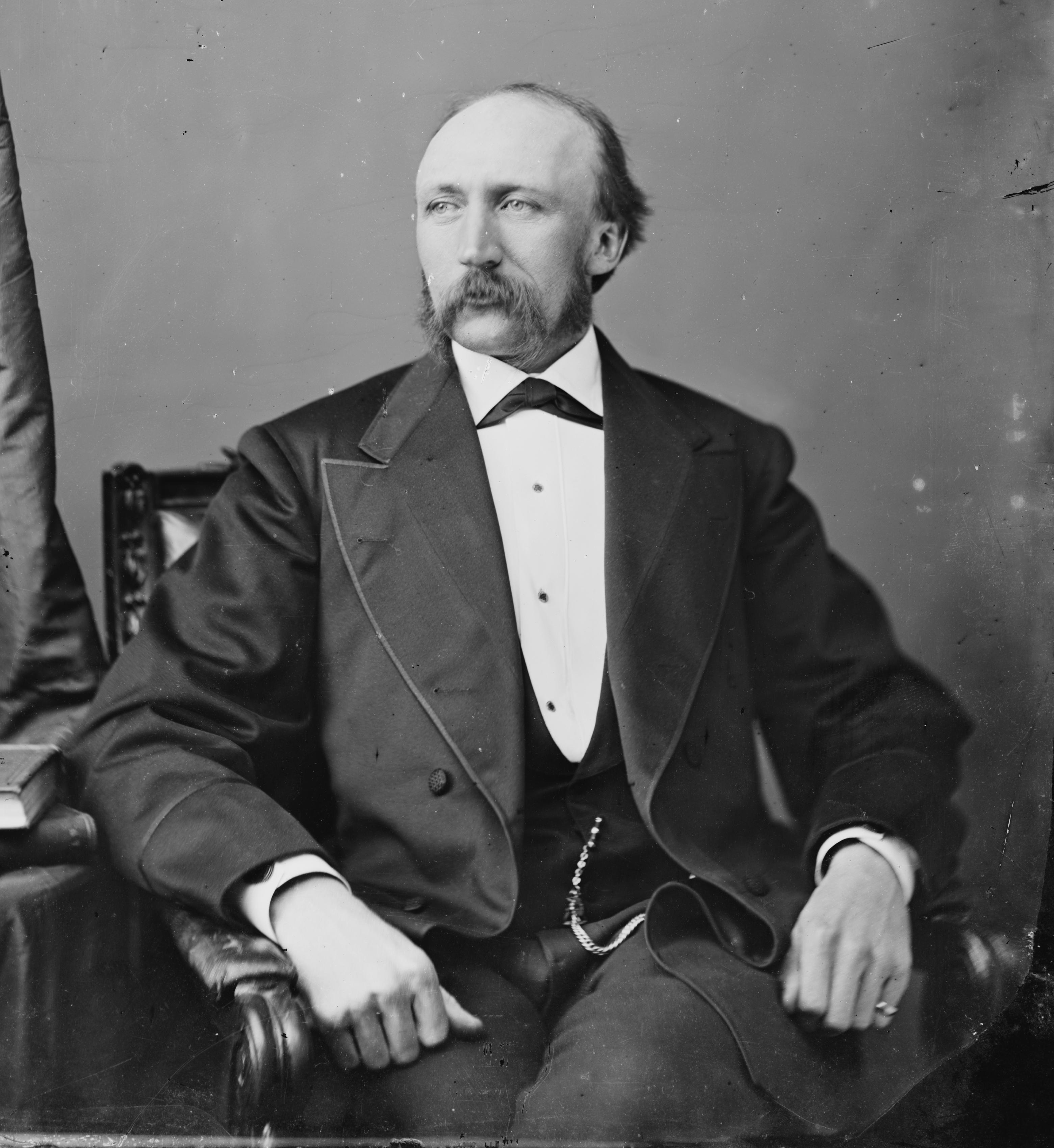 Simon Barclay Conover. Library of Congress description: "Hon. Simon Barclay Conover of Florida"